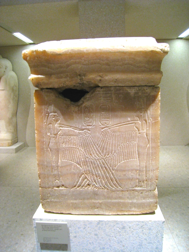 Alabaster canopics chest of Shoshenq Ist. 22nd dynasty of Egypt. Egyptian museum of Berlin